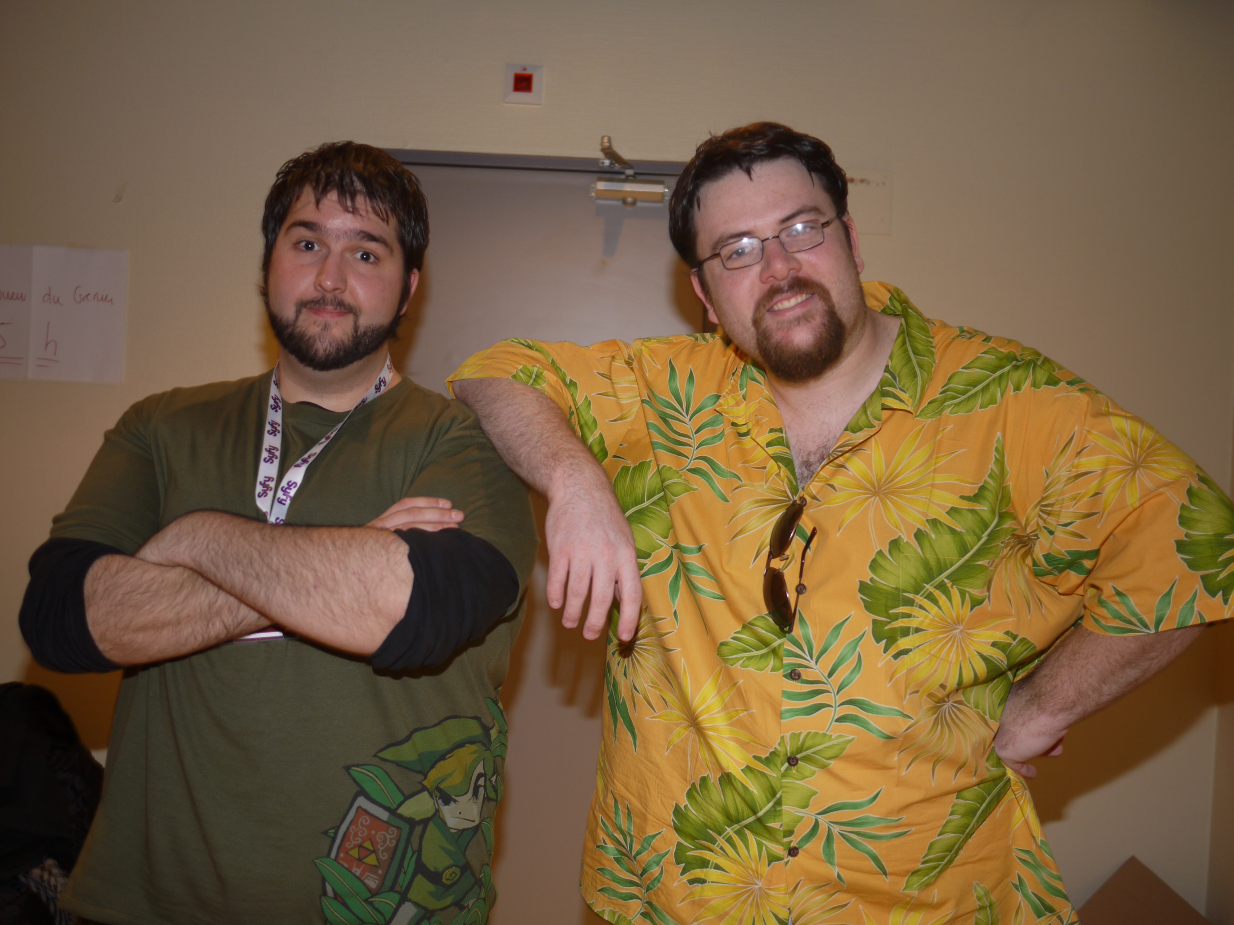 Toulouse Game Show Festival, 4th edition.